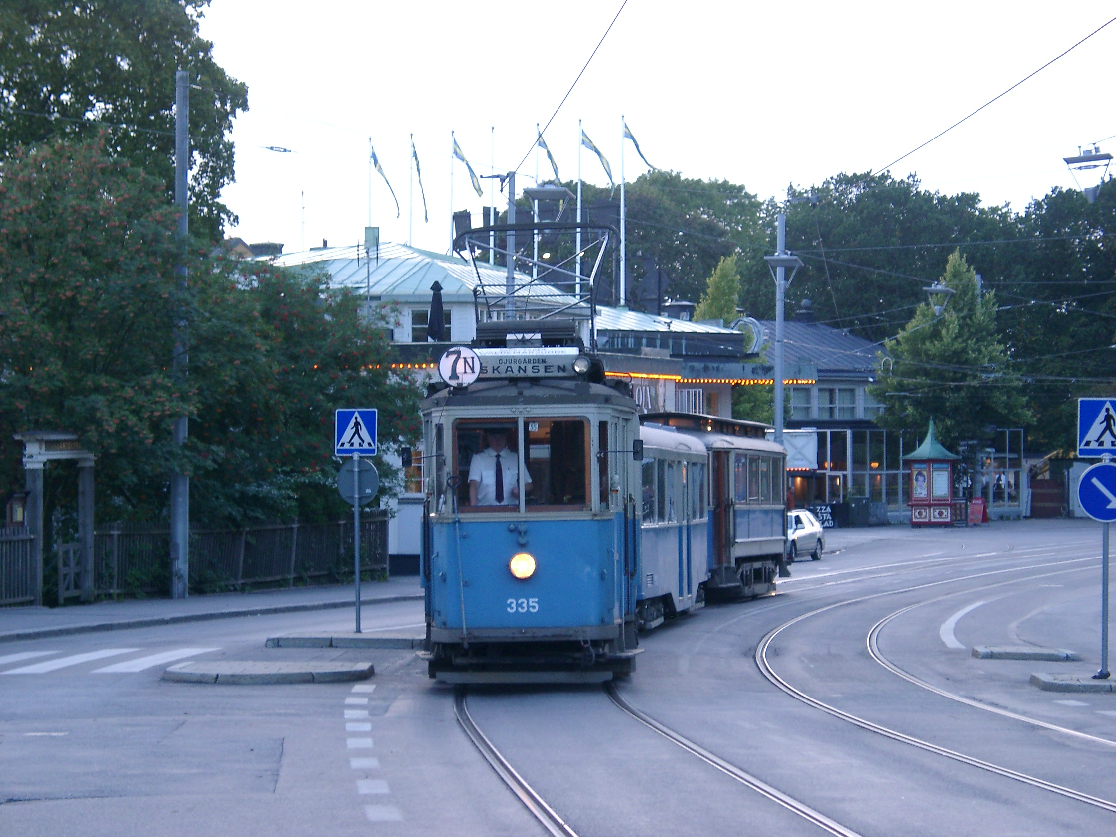 Tramway Stockholm